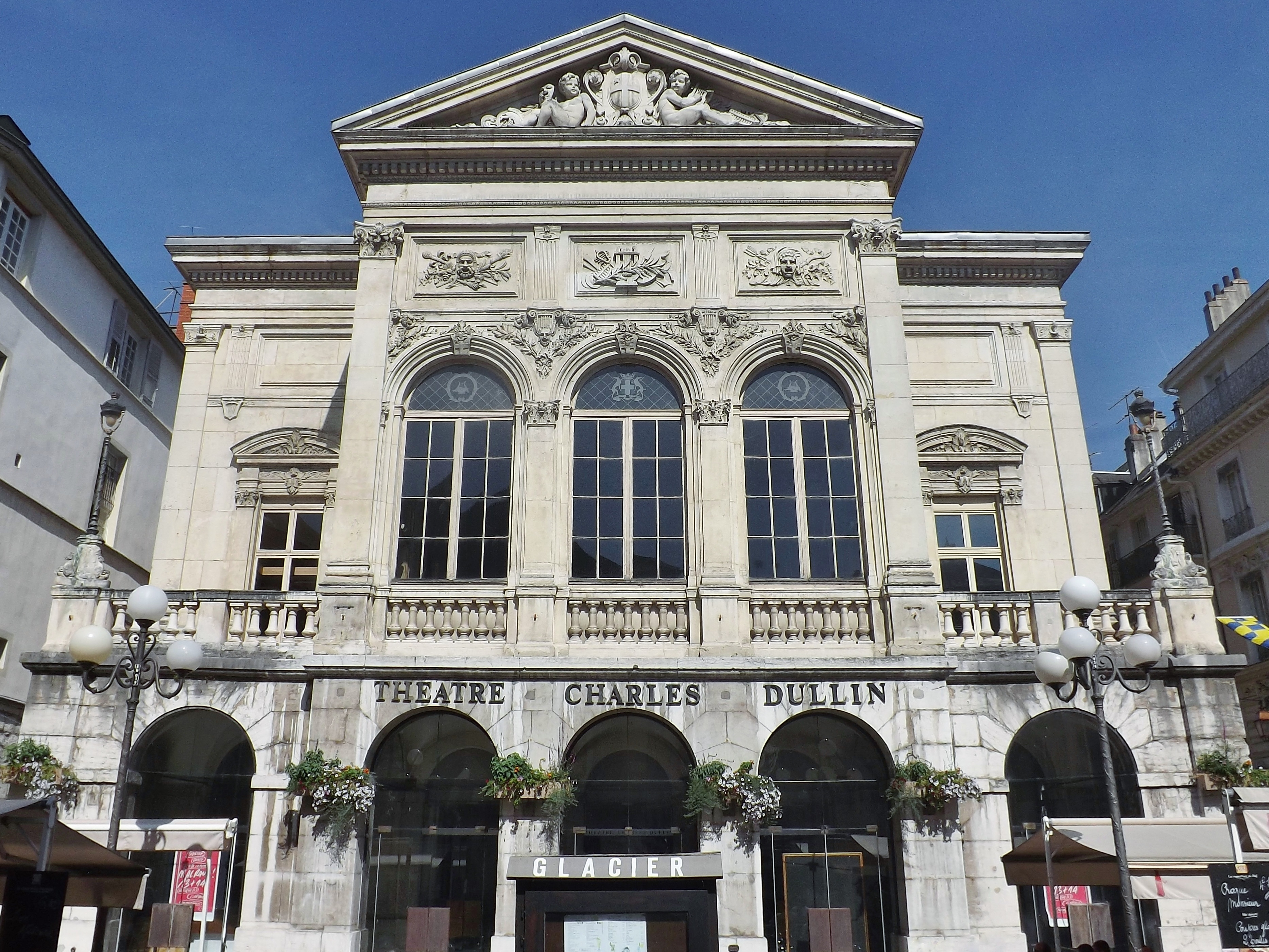 View of théâtre Charles Dullin theater front, in Chambéry, Savoie, France.